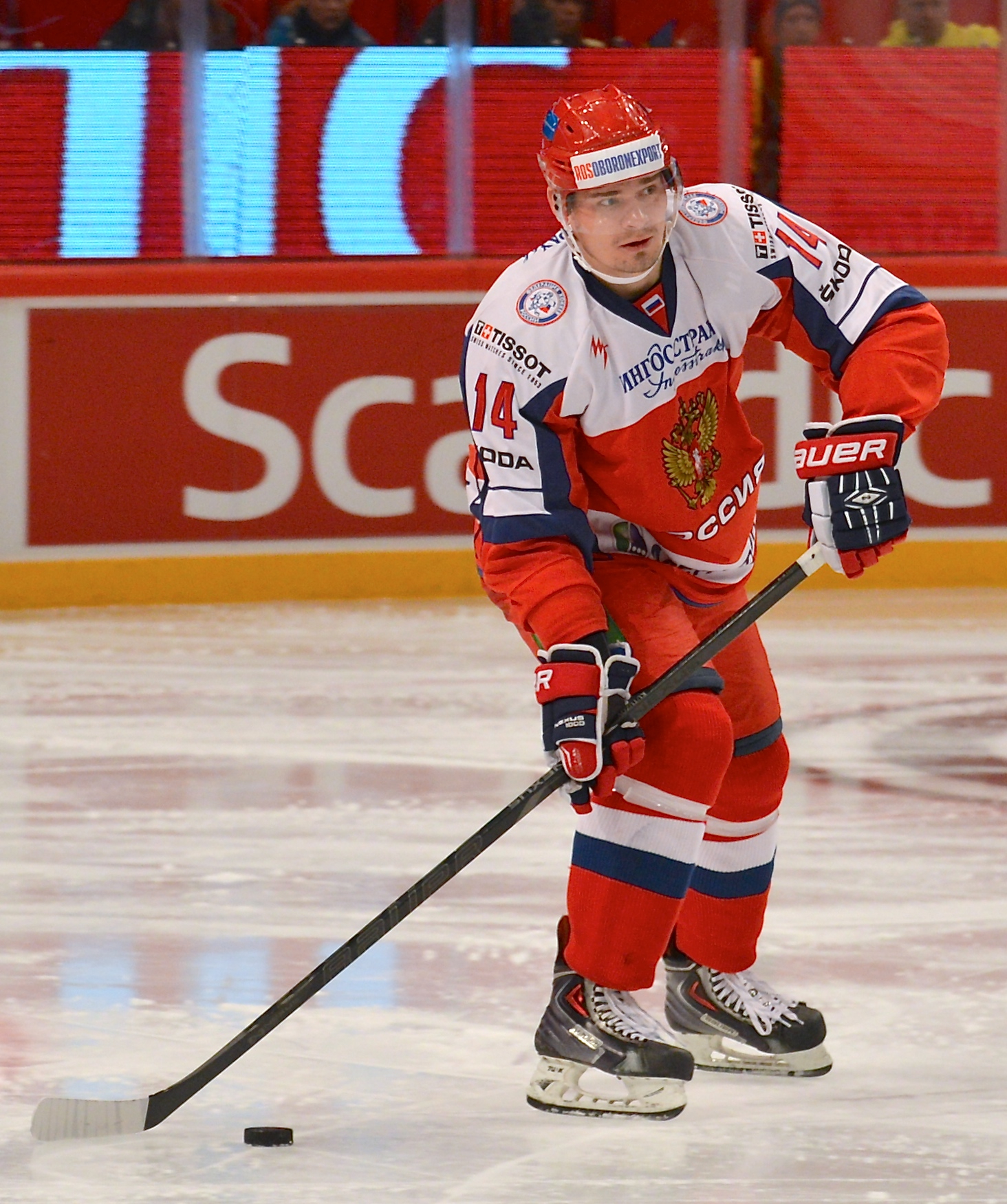 Aleksandr Kutuzov during Oddset Hockey Games against Russia (2-0) at the Ericsson Globe in Stockholm on May 4th, 2014.